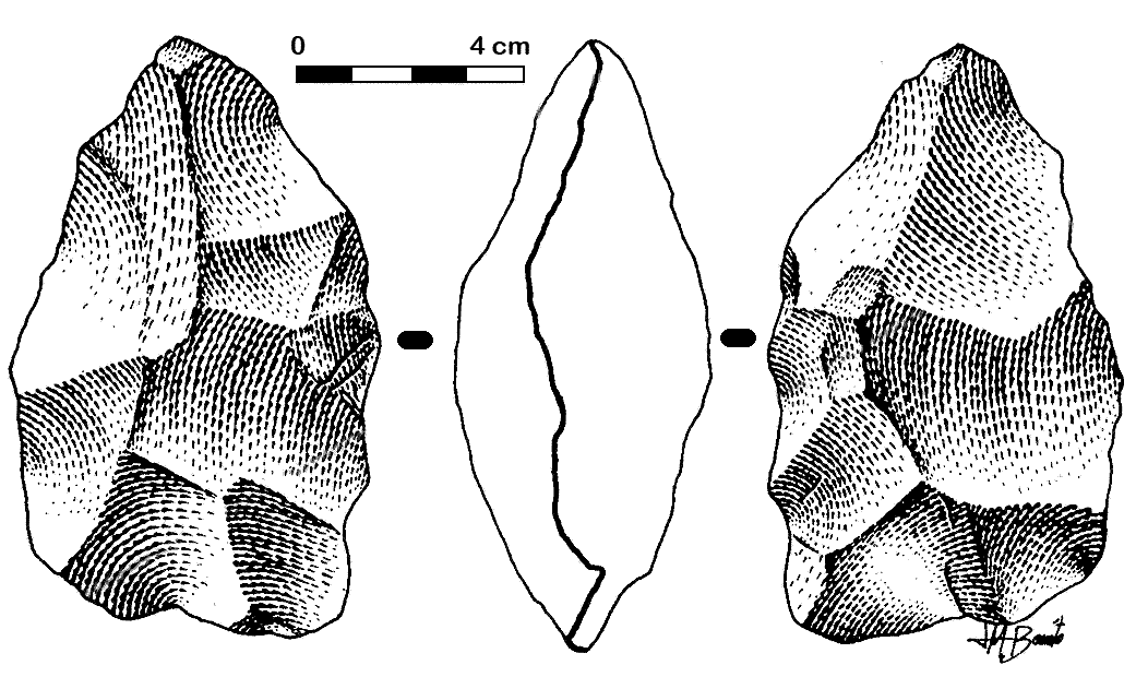 Acheulean hand axe that proceeds from a superficial site in the Salamanca province (Spain), in the valley Yeltes river, tributary of Douro river.